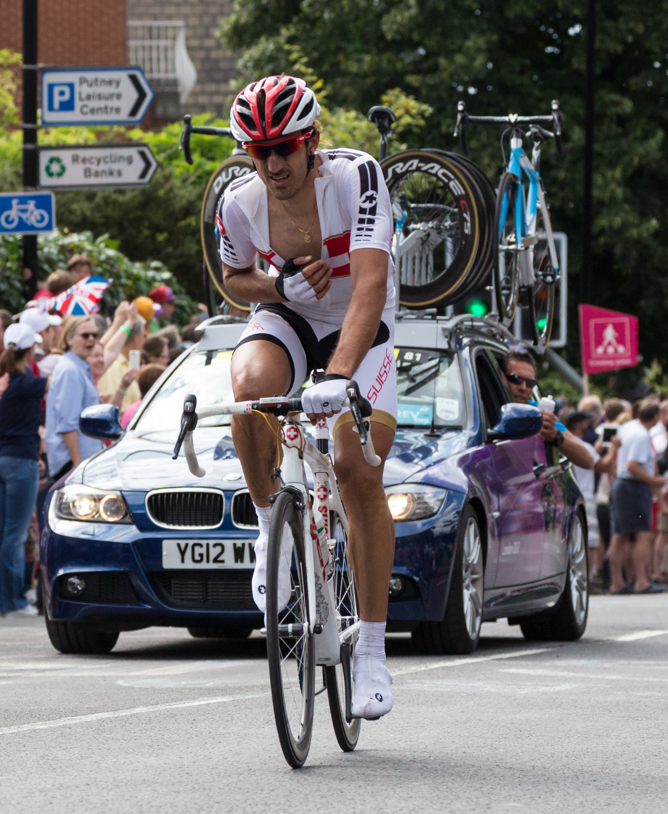 Fabian Cancellara, nursing his injured right arm after crashing in the Olympic Road Race while failing to make the sharp right turn at Richmond Gate, inside Richmond Park, 9 miles from the finish of the 6 hour race. This photo was taken in Putney, some five miles from the finish in The Mall, Central London.